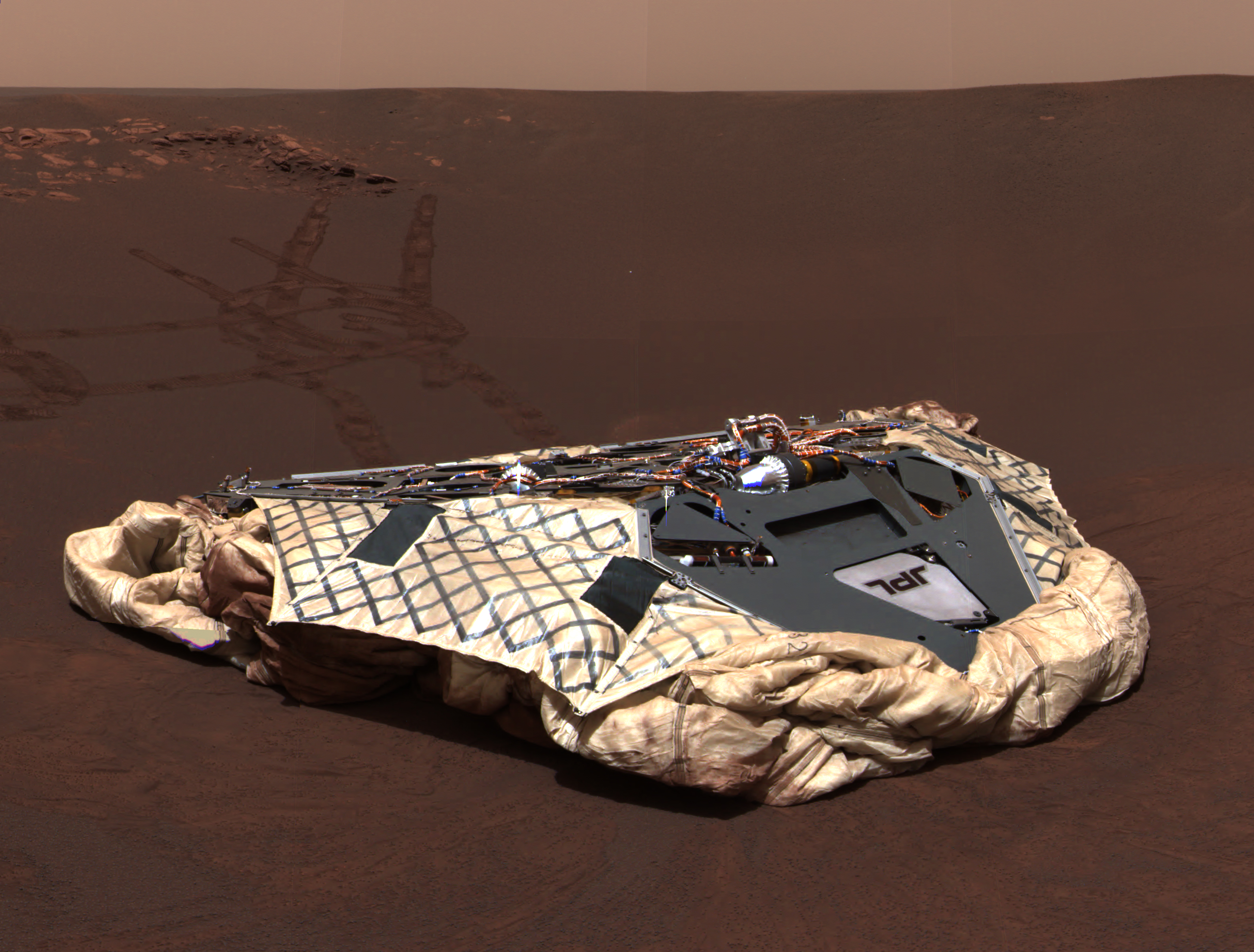 This image taken by the panoramic camera aboard the Mars Exploration Rover Opportunity shows the rover's empty lander, the Challenger Memorial Station, at Meridiani Planum, Mars. The image was acquired on the rover's 24 sol, or Martian day Time. This mosaic image consists of 12 colour images acquired with the camera's red, green and blue filters. The colour balance has been set to approximate the colours that a human eye would see.